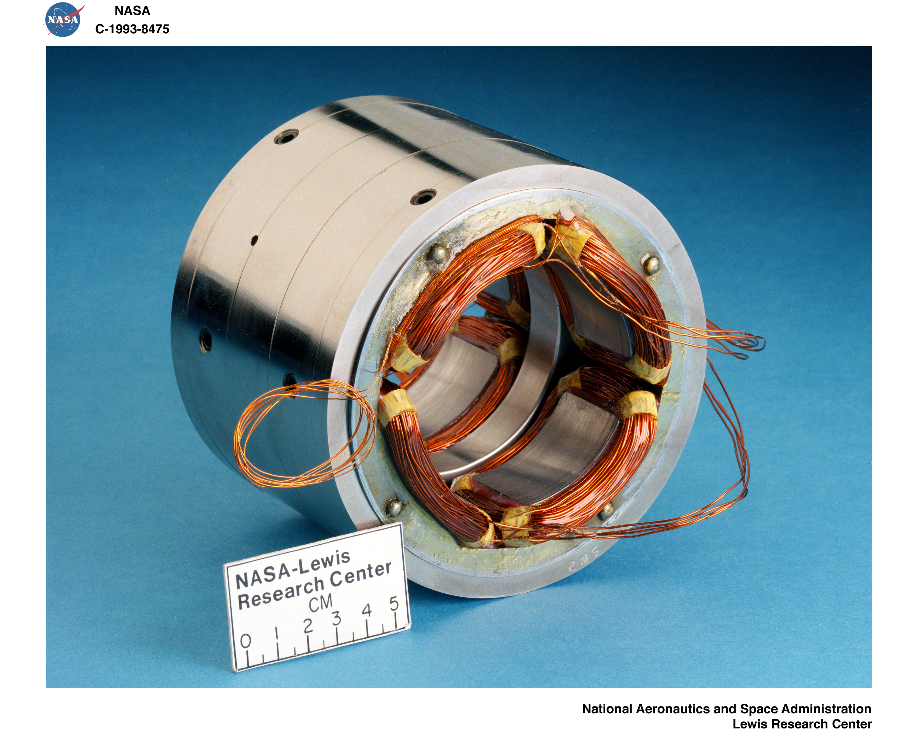 Magnetic bearing